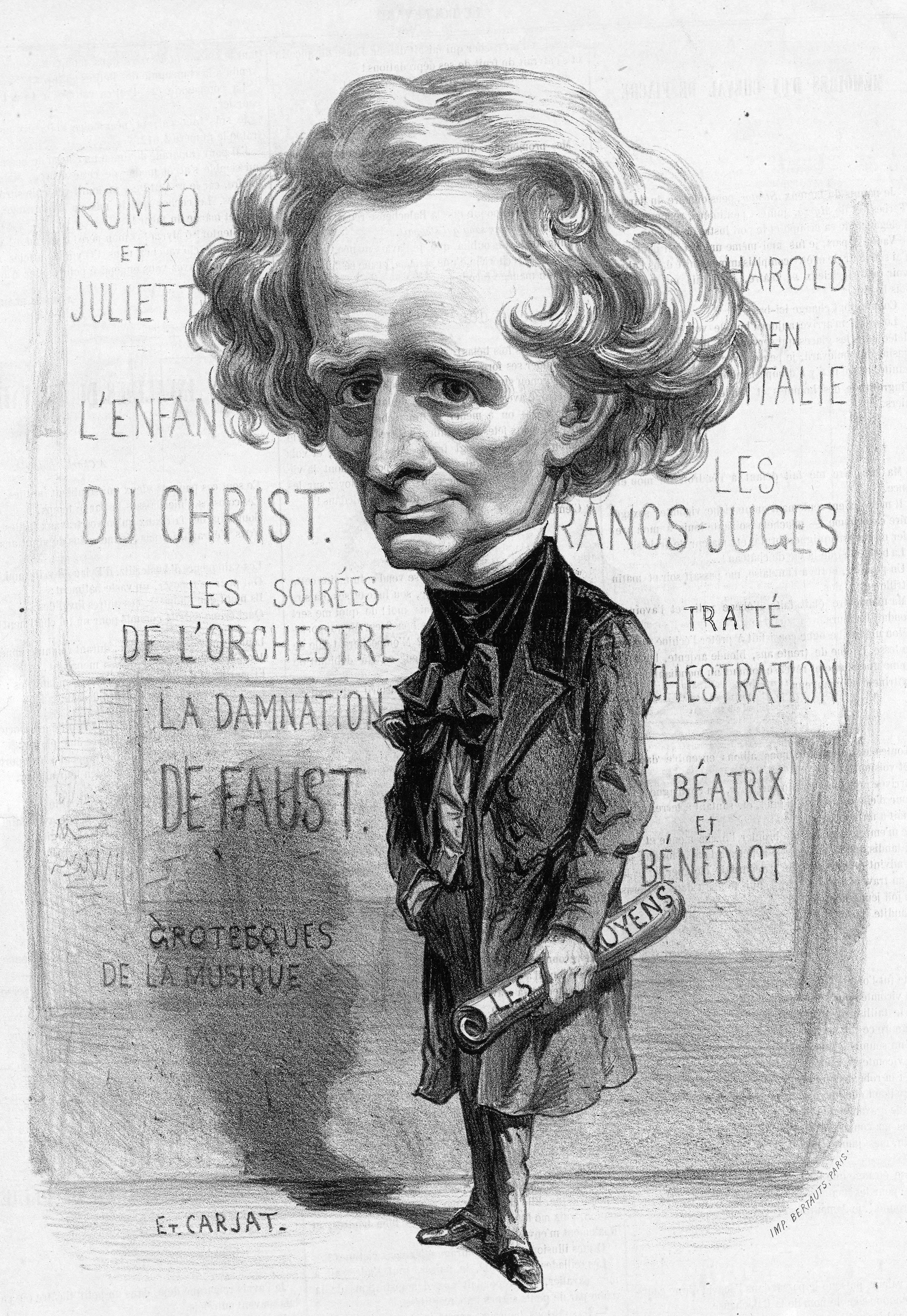 Artist: Étienne Carjat, published in Le Boulevard in 1863